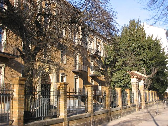 Listed building, former „Gertrauden-Hospital“, in Berlin-Kreuzberg. Built by Friedrich Koch in 1871/73 and 1883/84. Part at Großbeerenstraße.